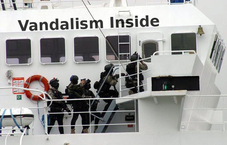 Fight against vandalism in the Wikipedia!